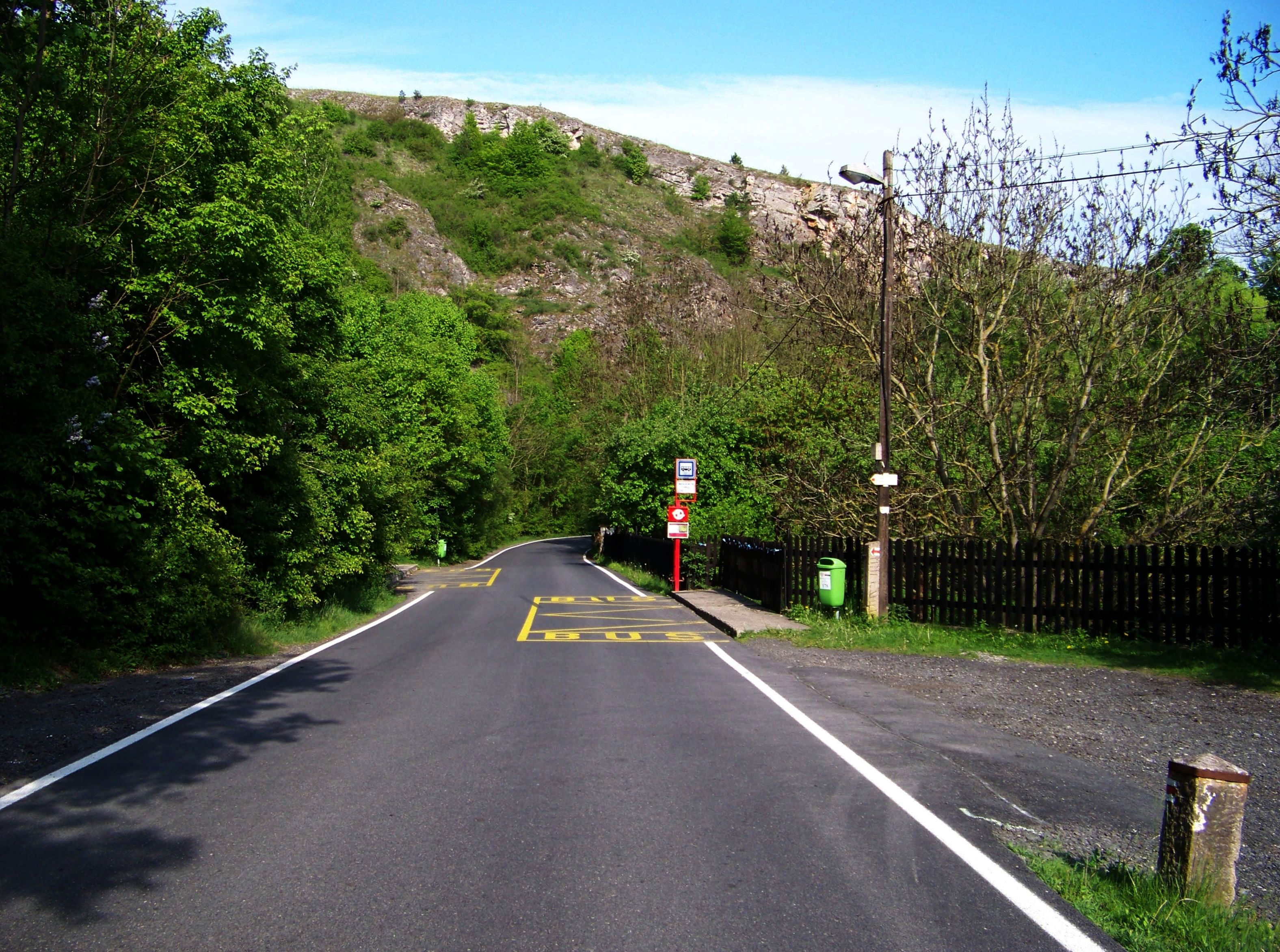 Prague-Zadní Kopanina and Radotín, the Czech Republic. K Zadní Kopanině and Na Cikánce street, bus stop Maškův mlýn.